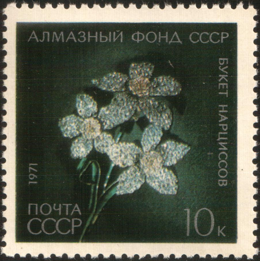 USSR stamp: Brooch "Daffodil Bouquet" (Gold, Diamonds), 18th Century. Series: Diamond Fund